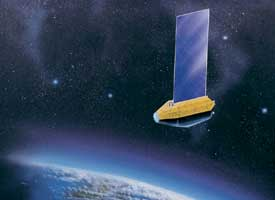 An artist's concept of Brilliant Pebbles